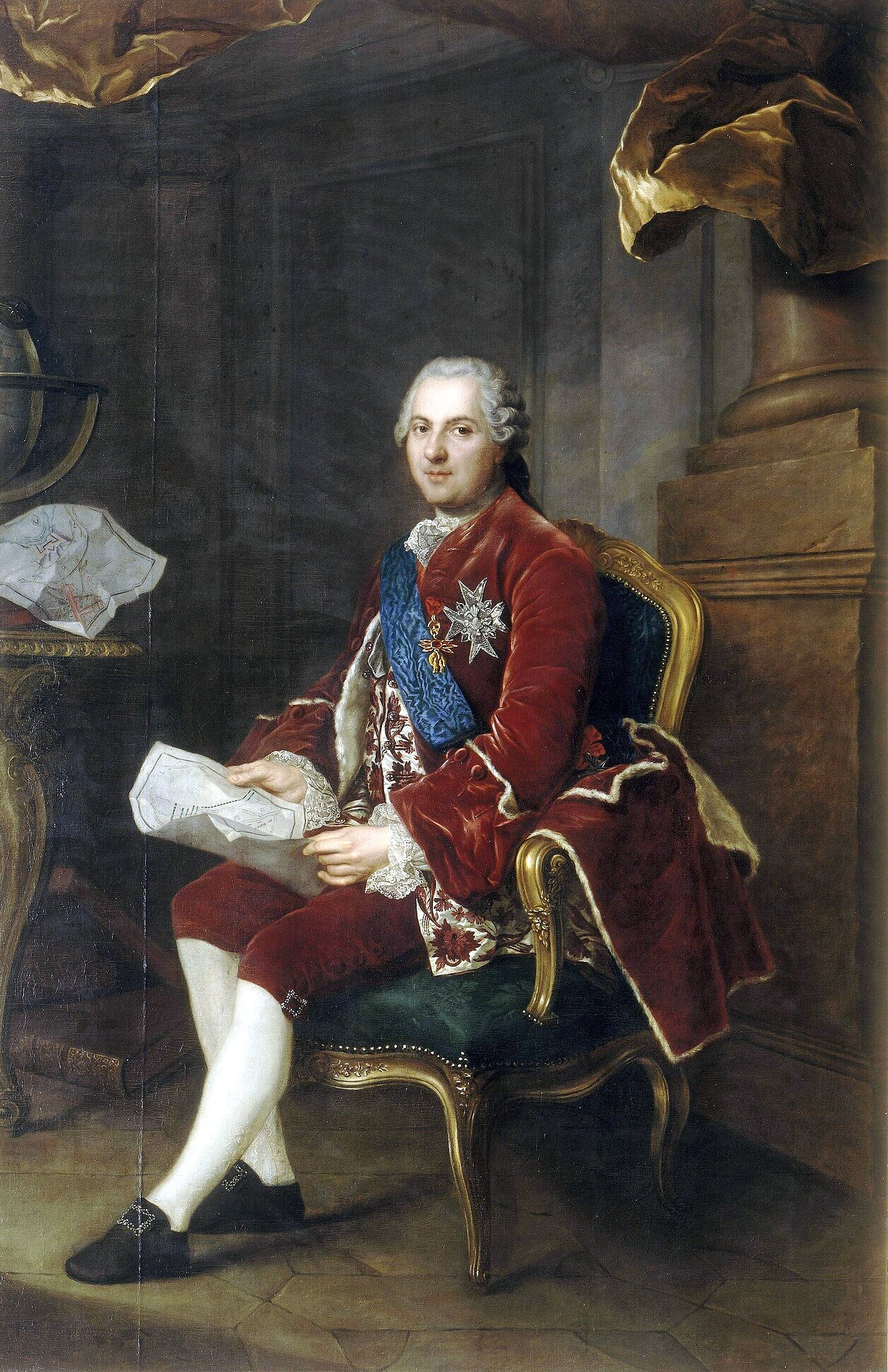 Depicted person: Louis, Dauphin of France (1729–1765), son of Louis XV and Marie Leszczyńska